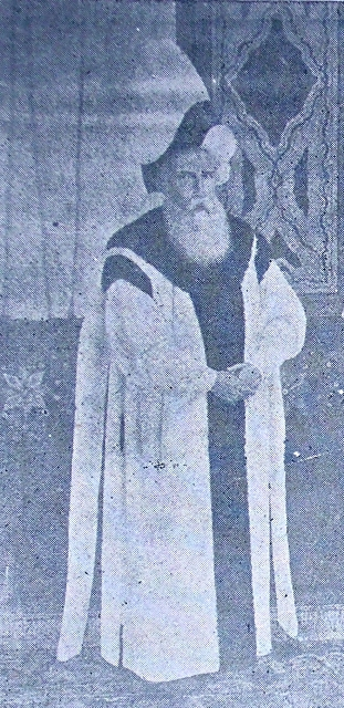 Koca Yusuf Pasha was a Grand Vizier of the Ottoman Empire from January 25, 1786 to May 28, 1789. He was a Georgian convert to Islam and he served as the governor of Peloponnese.